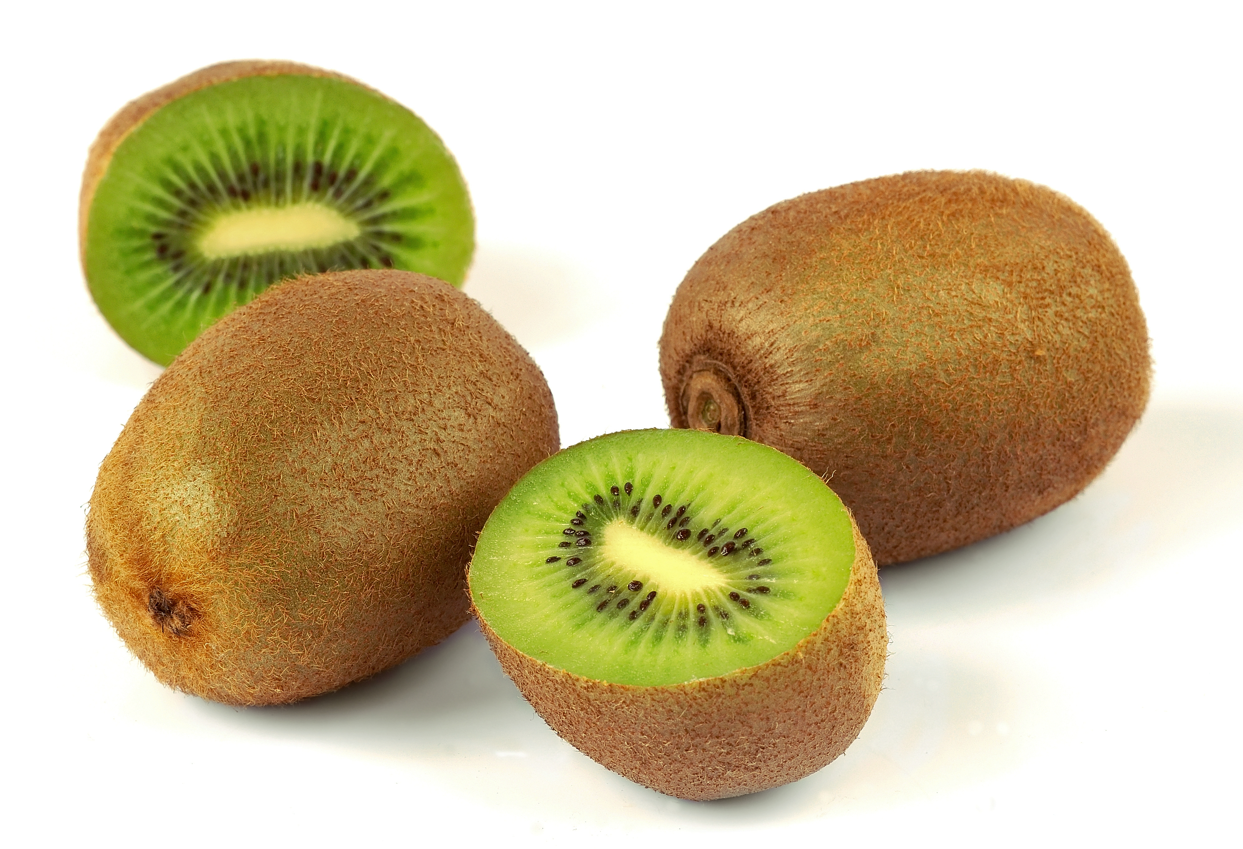 This image shows two whole and a cut green Hayward variety kiwifruit.